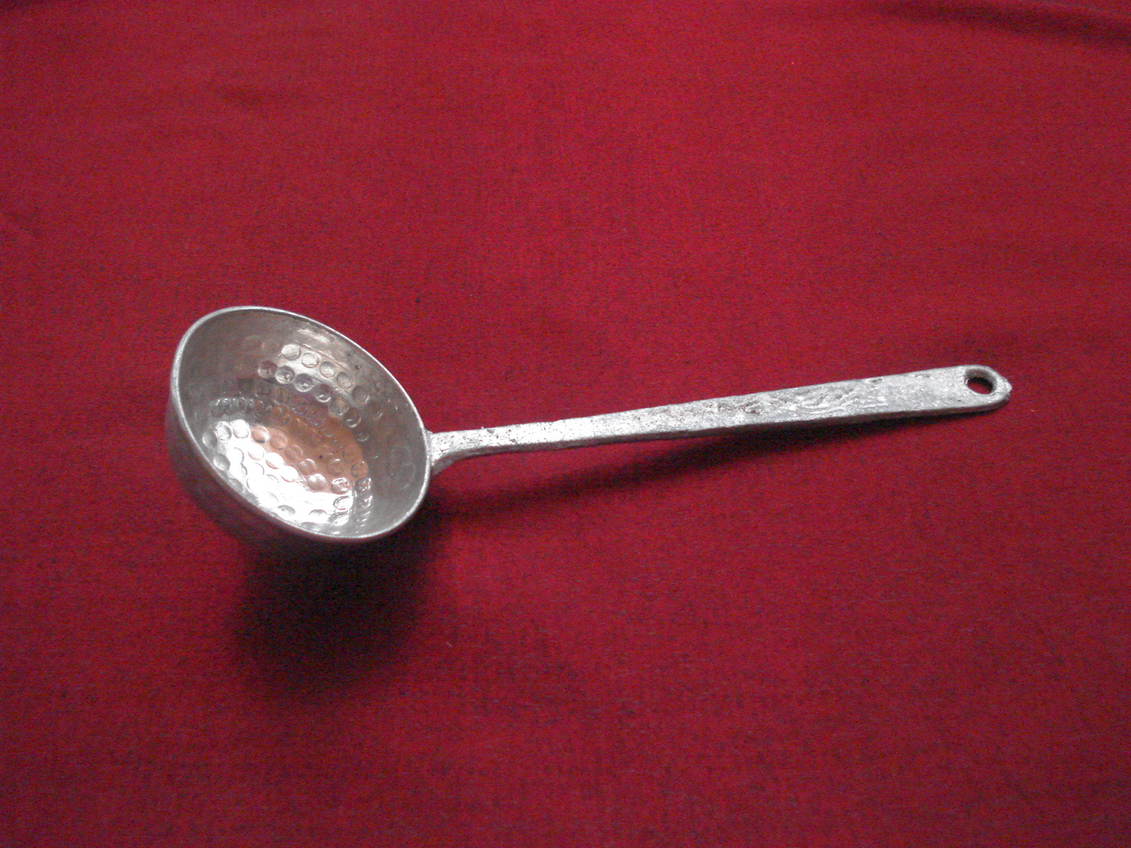 Ladle, a kind of spoon